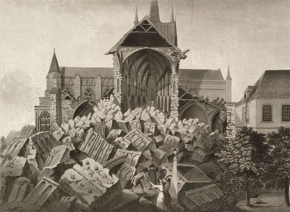 "View of the Ruins of the West Tower of Hereford Cathedral," aquatint, by I. Wathen, 1788. View showing the ruins after the west tower of Hereford Cathedral, originally built by the de Braose family, collapsed on Easter Monday, 1786. Image courtesy of the British Library, London.